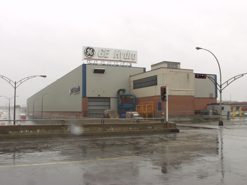 Photo de l'usine